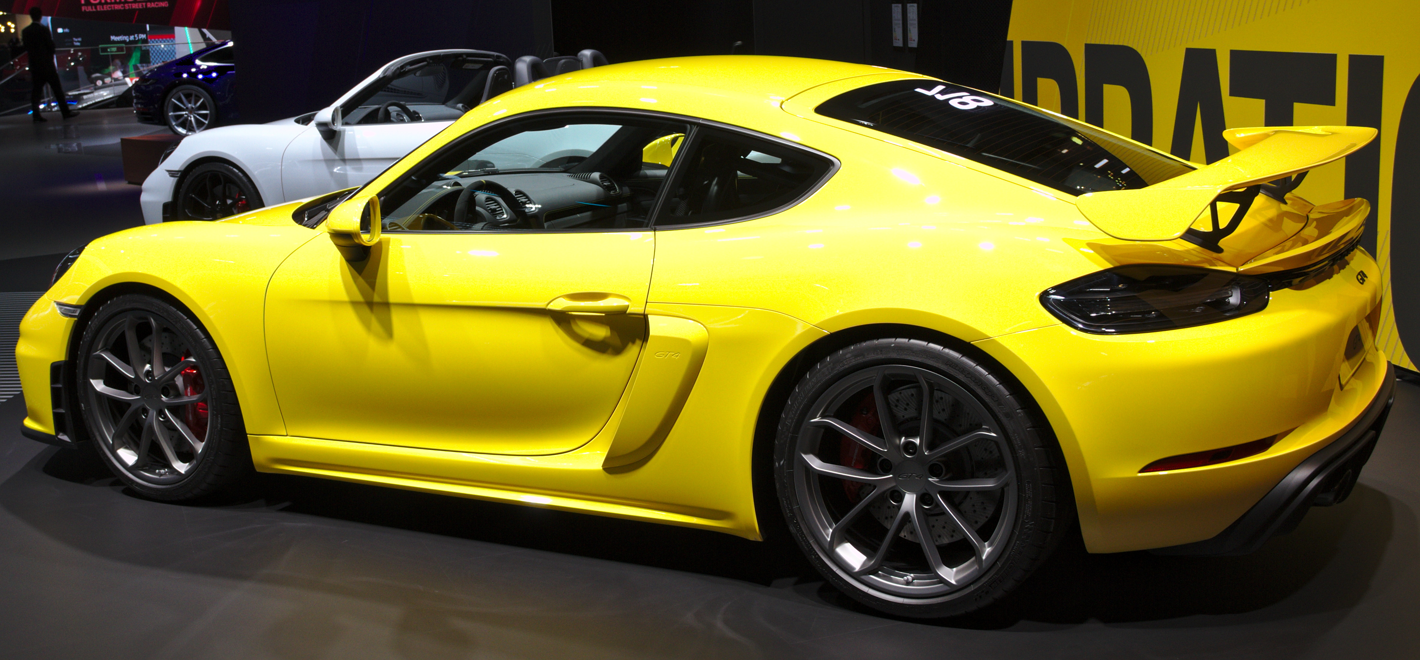 Porsche_718_Cayman_GT4 at IAA 2019